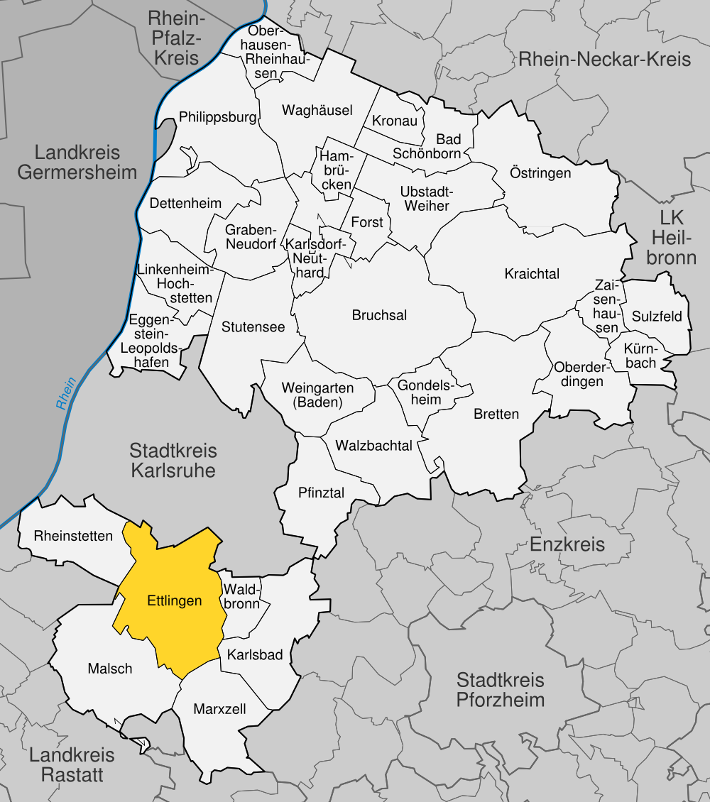 position of Ettlingen within distict of Karlsruhe, Baden-Württemberg, Germany